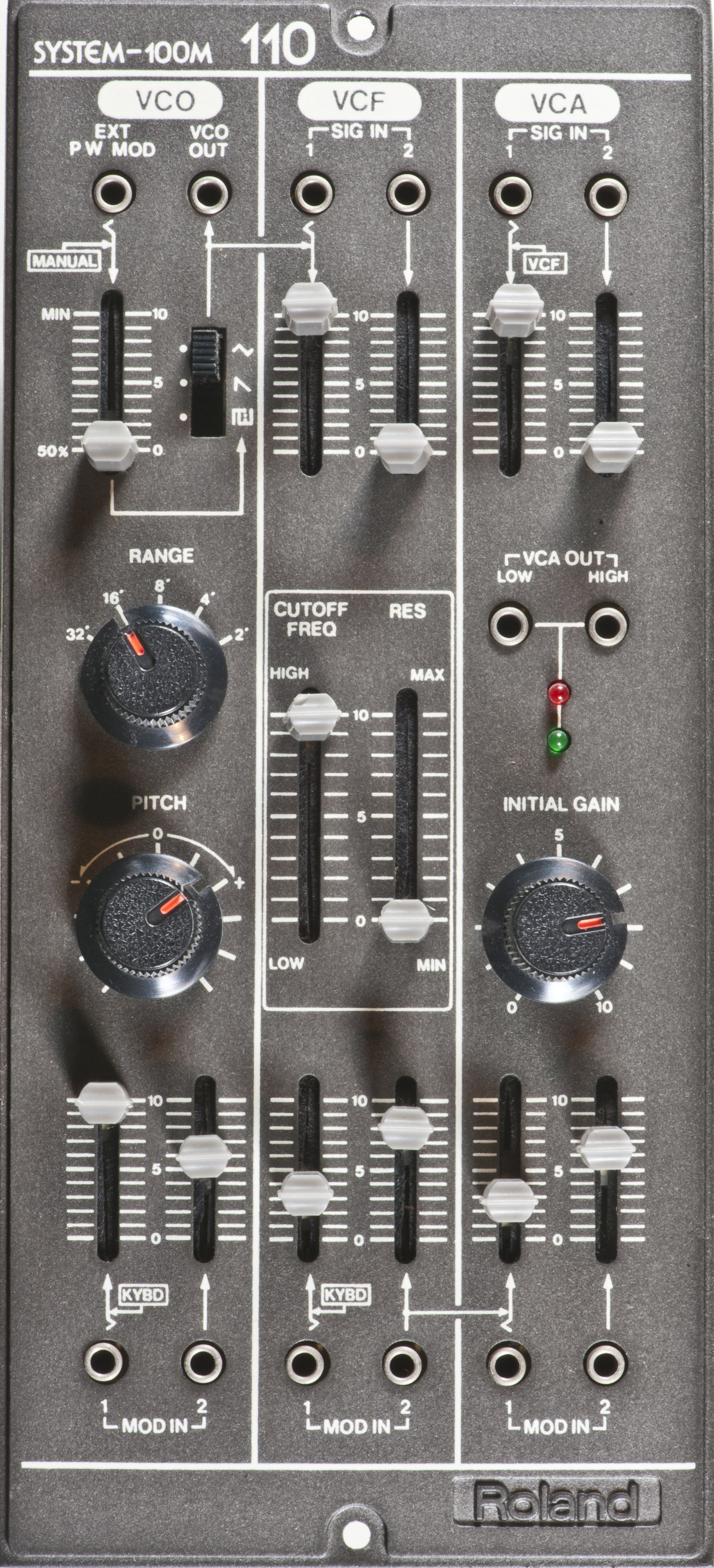 ROLAND Modular synthesizer SYSTEM-100M, Modul 110 (VCO/VCF/VCA) Module 110 contains the three main synthesizer elements for the production of one synthesizer voice. The connections for signal flow from the VCO, through the VCF to the VCA are internally patched. Another internal connection allows a single envelope generator input to control both the VCF and VCA. All internal connections are made with switching jacks so that they can be broken, if desired.